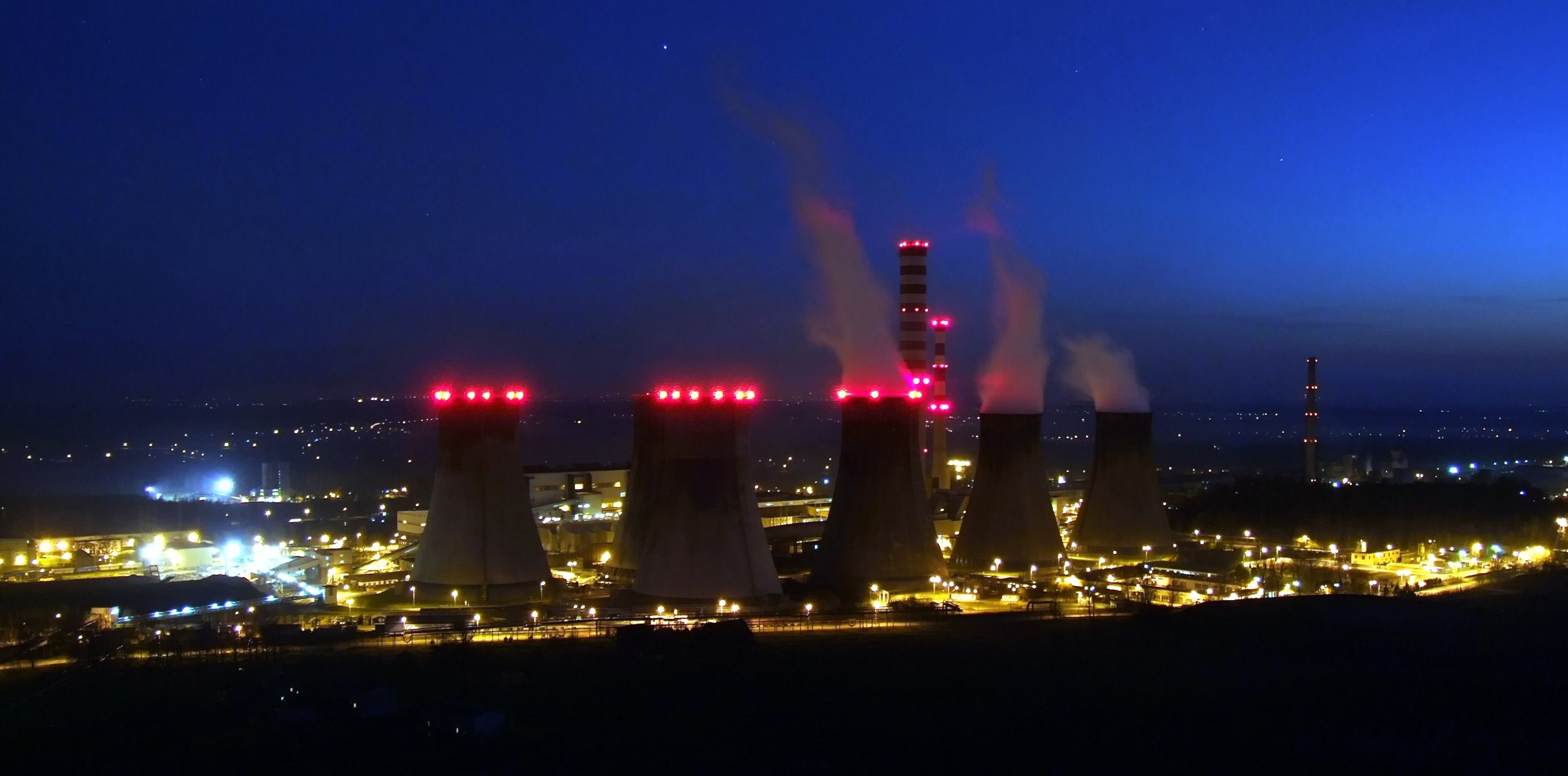 Power plant "Łaziska" by night